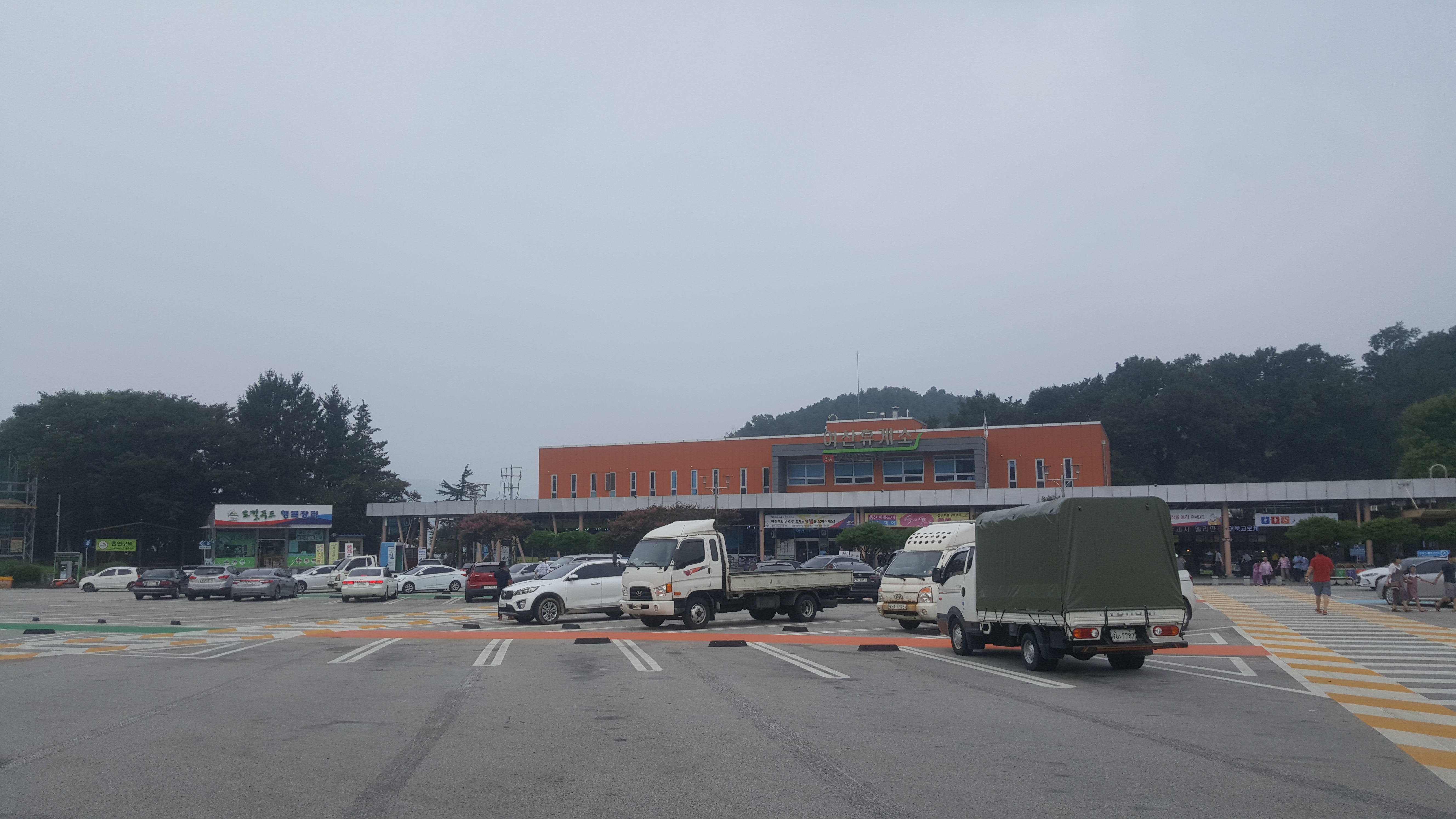 Honam Expressway Yeosan Service Area (To Suncheon)